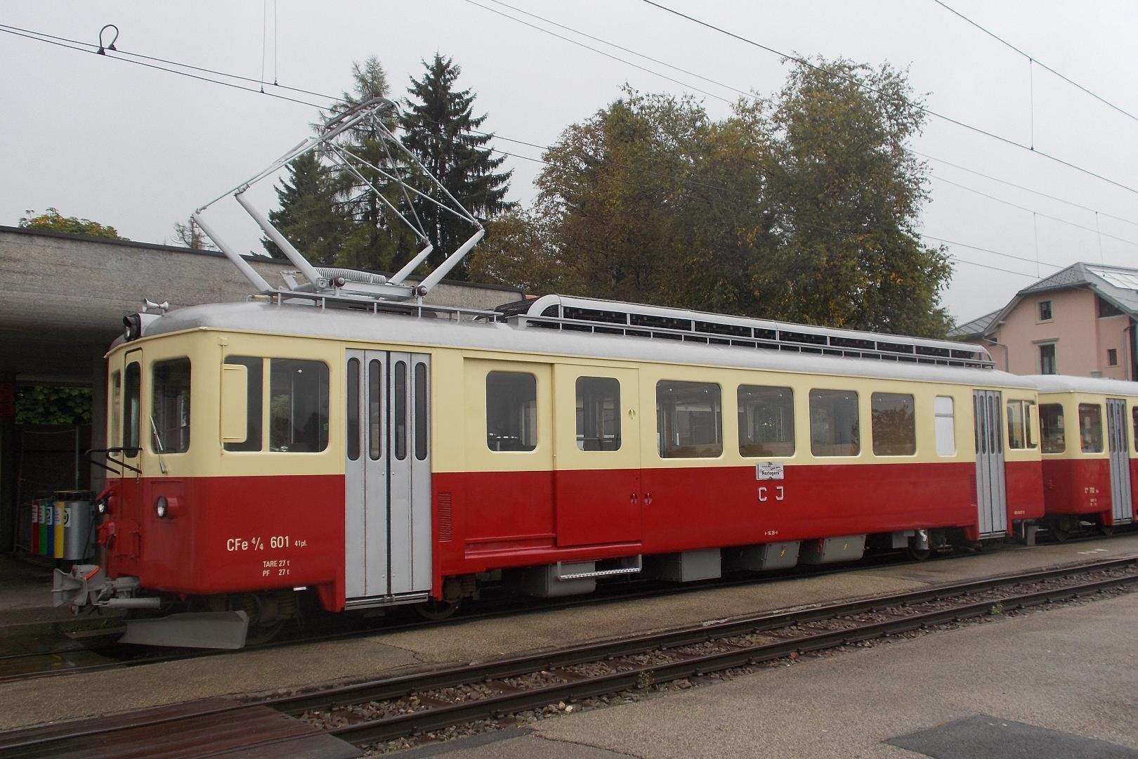 Historical Railcar of the Chemins de fer du Jura (CJ) CFe 4/4 601 at Le Noirmont (Switzerland).